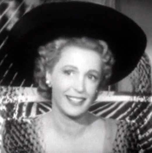 Cropped screenshot of Natalie Schafer from the film Dishonored Lady (1947).